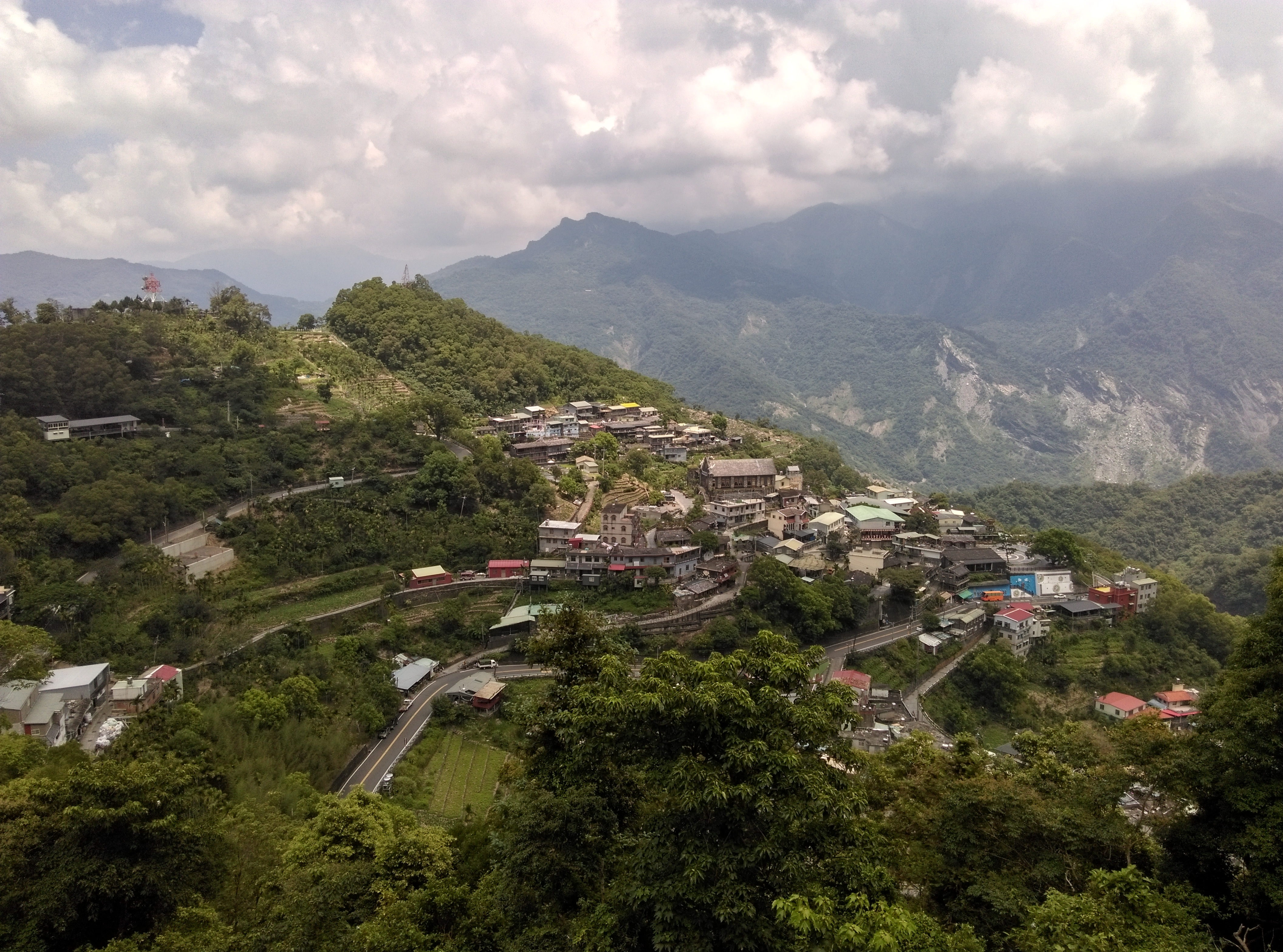 Vudai Tribes in Wutai Township, Pingtung County, Taiwan.